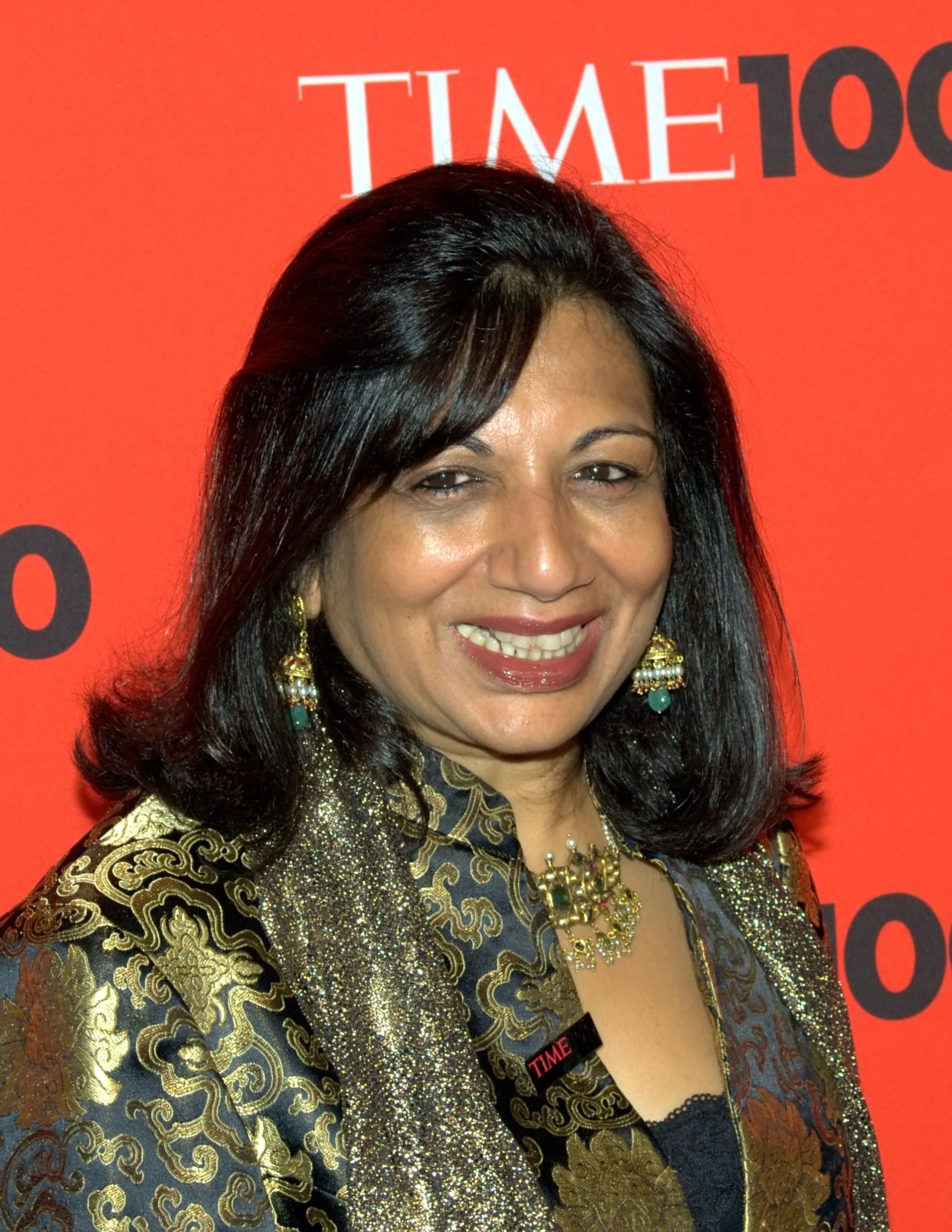 Kiran Mazumdar-Shaw at the 2010 Time 100 Gala.